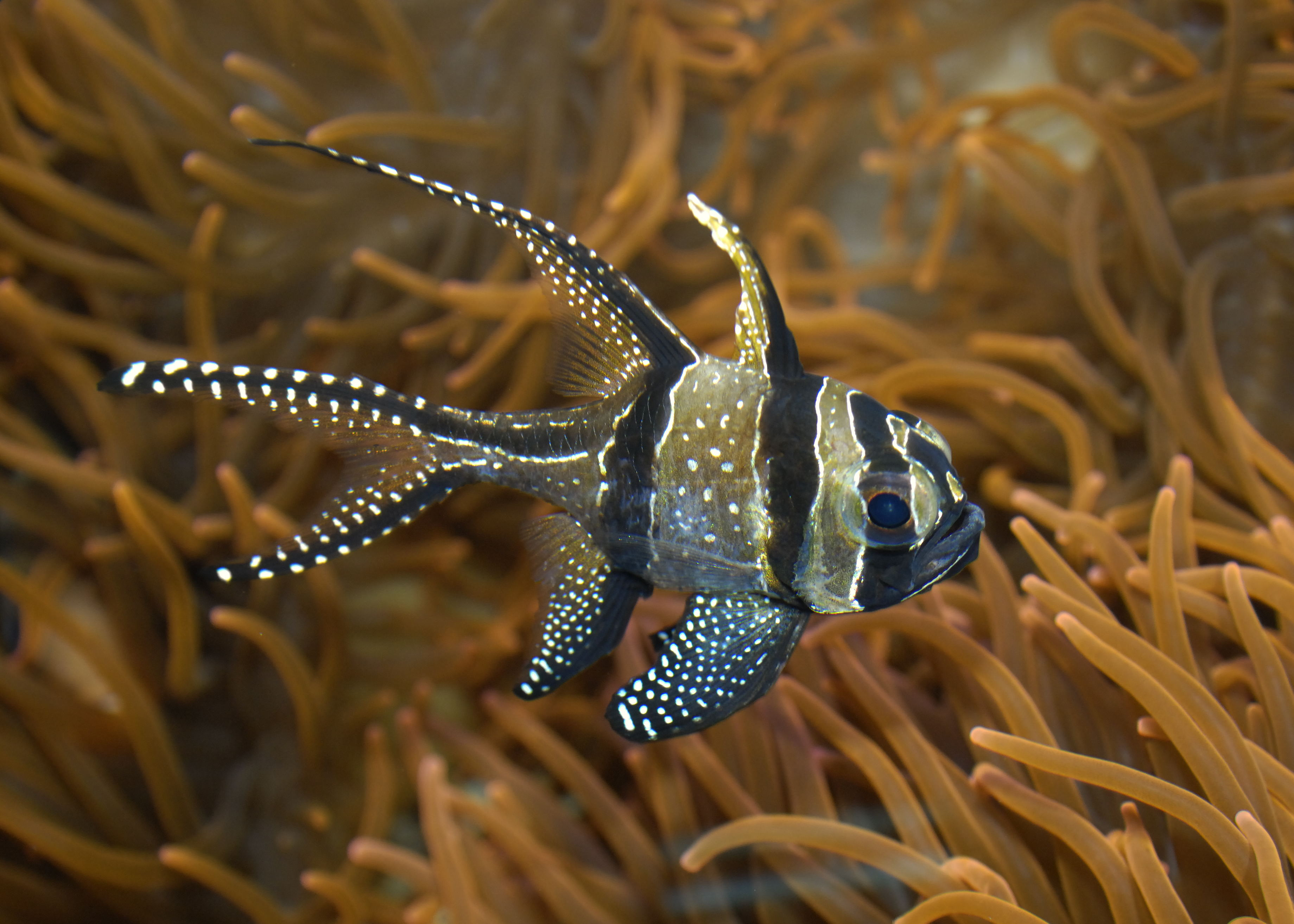 Austria, Vienna, Tiergarten Schönbrunn